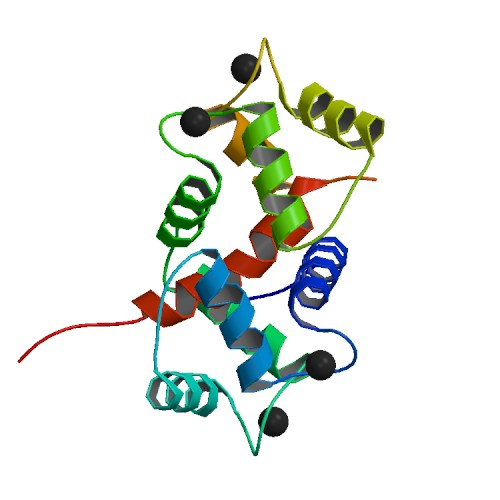 This is an image of Calmodulin (with 4 Calcium ions bound) binding to myosin light chain (MLC) kinase